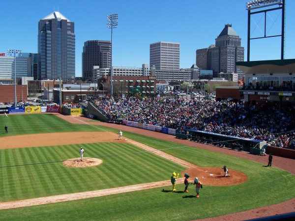 NewBridge Bank Park (formerly First Horizon Park), Greensboro, North Carolina, United States.